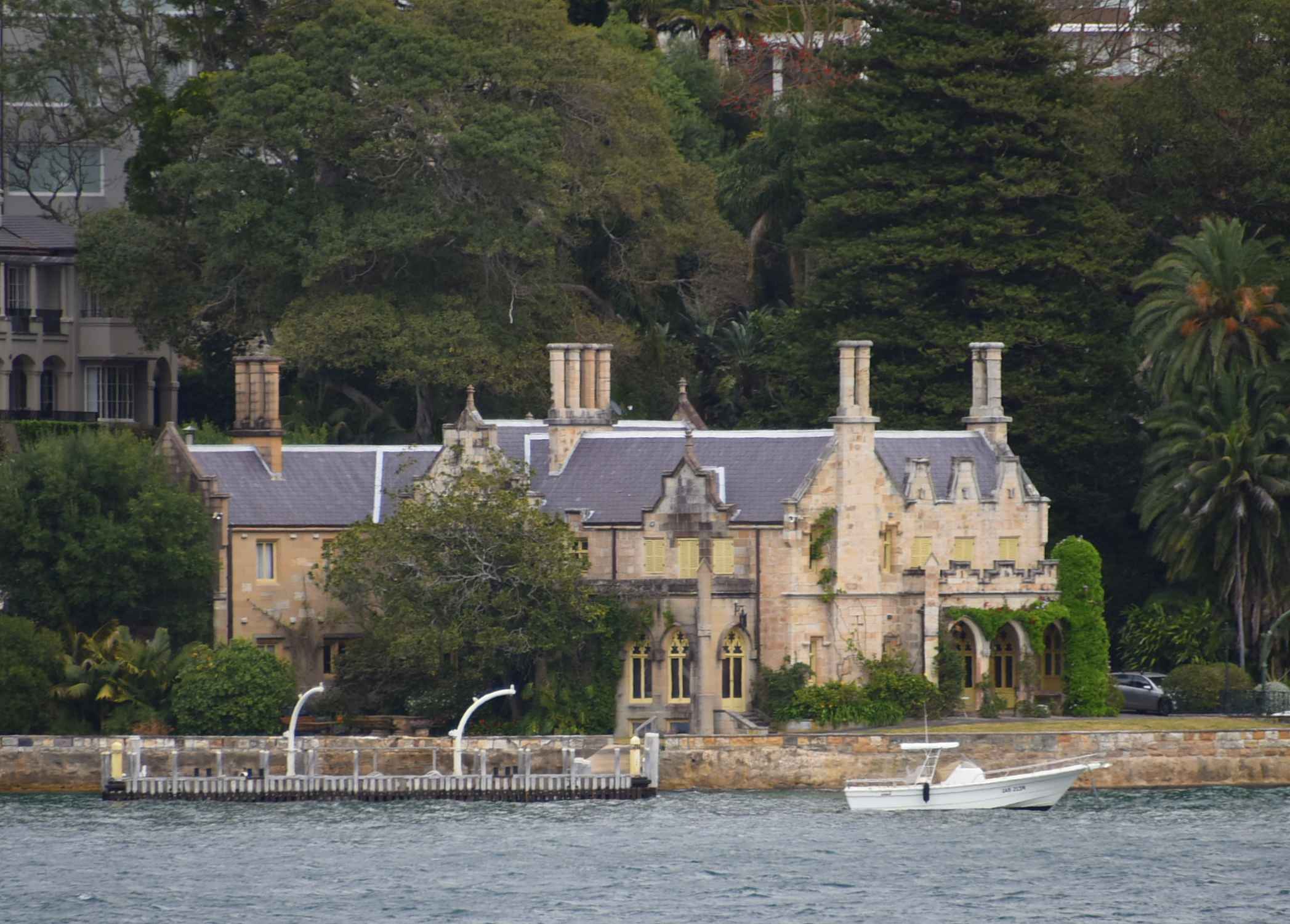 Carthona, Darling Point, Sydney, seen from Point Piper